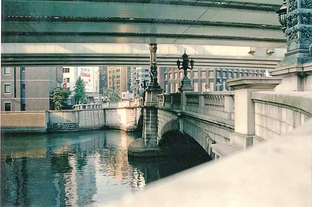 Nihombashi, Chuo, Japan I took this photograph and contribute it to the public domain.